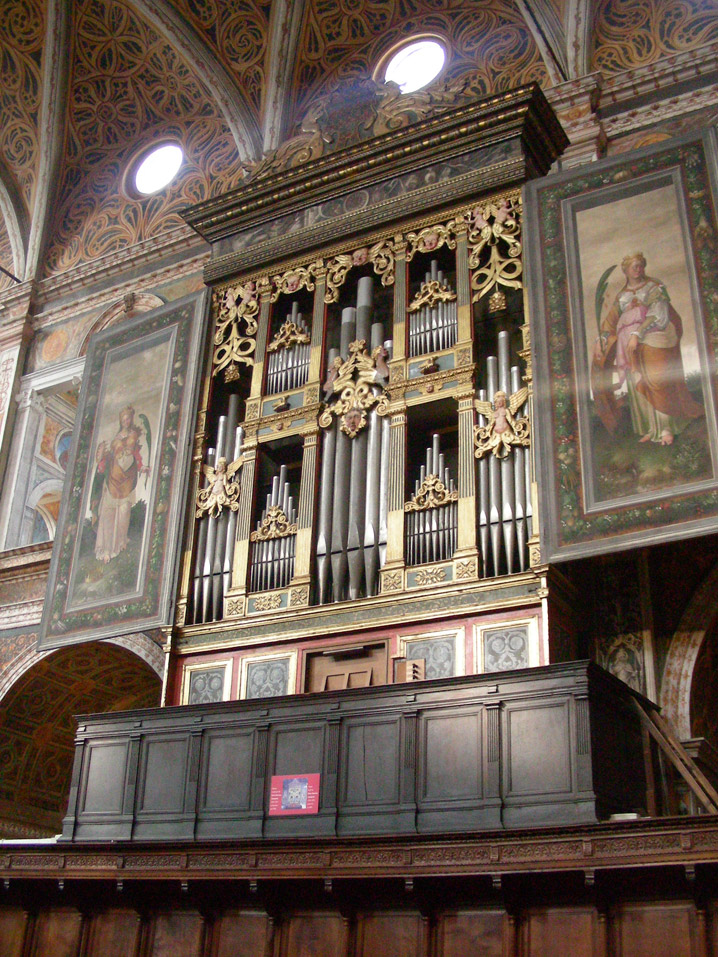 Italy, Milan, church of Saint Maurice al Monastero Maggiore, inside, nouns' part, organ